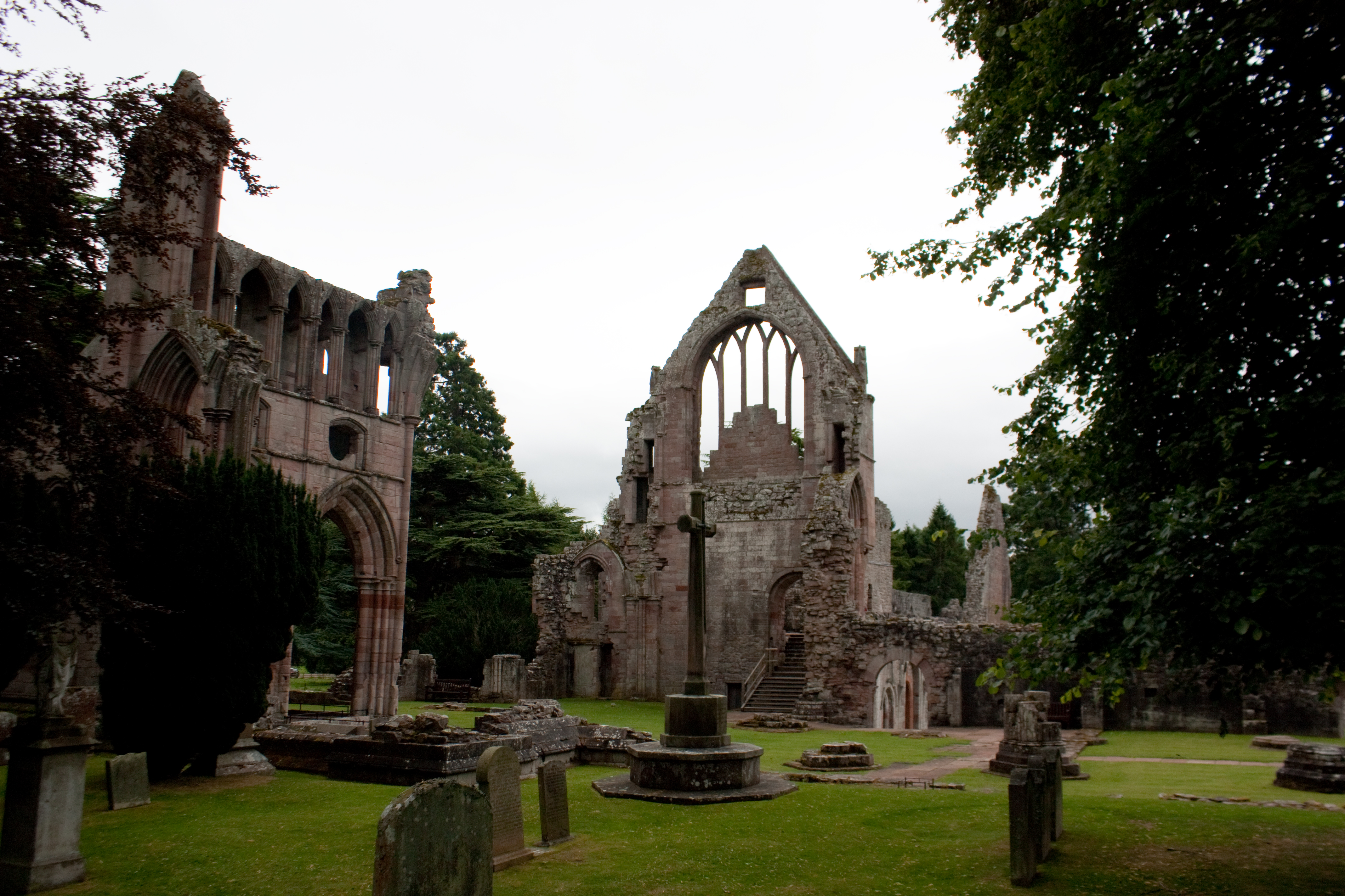 Dryburgh Abbey, Scotland. Founded in 1150, it was destroyed in 1322 and in 1544. Because of the Scottish Reformation, it was never rebuilt. The writer Sir Walter Scott and Field Marshal Douglas Haig are buried there.